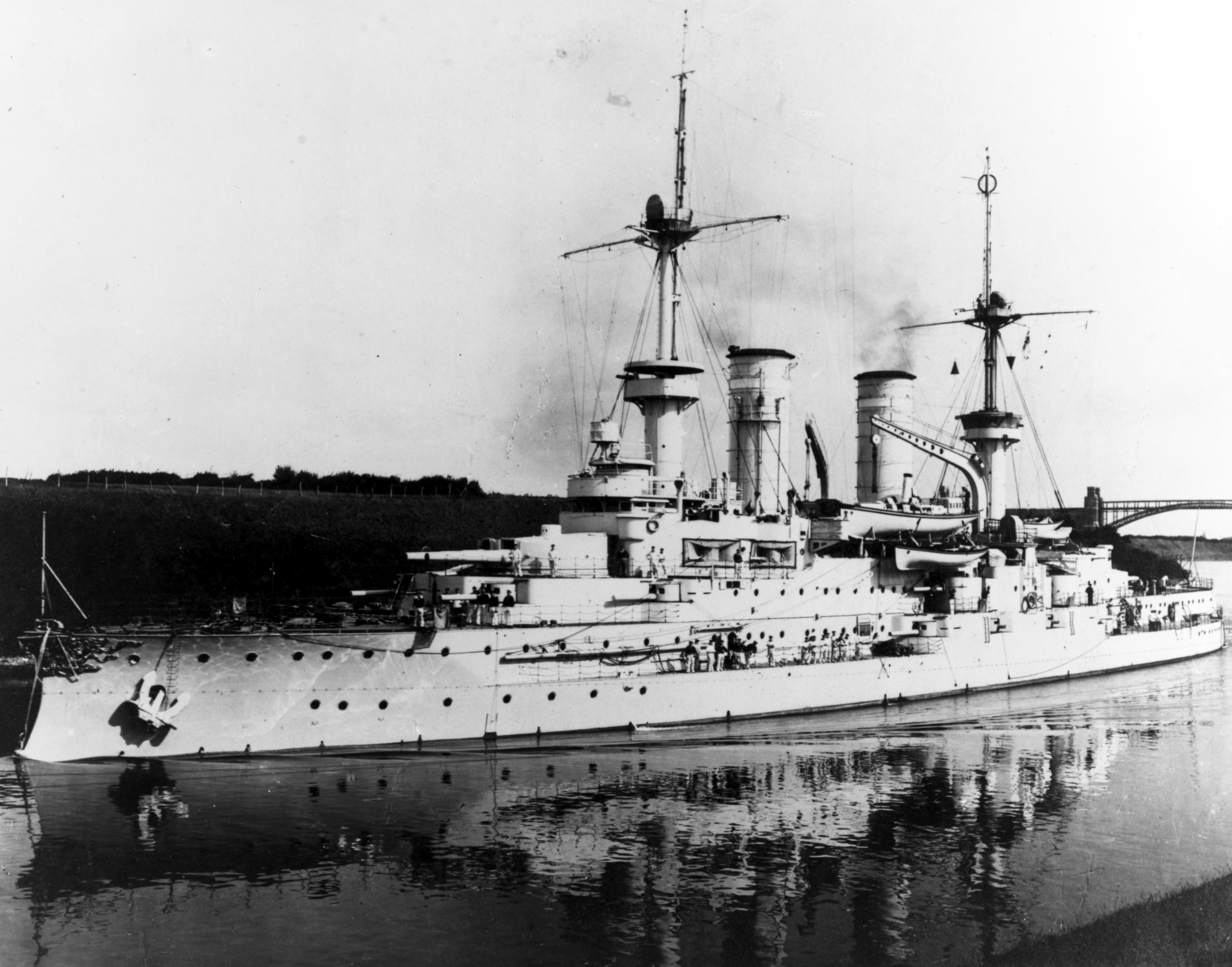 Title: WETTIN (German battleship, 1901-1921) Caption: WETTIN (German battleship, 1901-1921), photo by A. Renard, 1907.